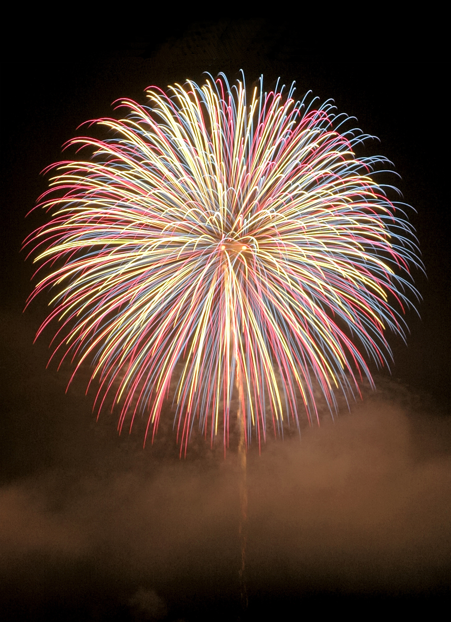 Fireworkss of Ojiya Festival (おぢやまつりの花火)